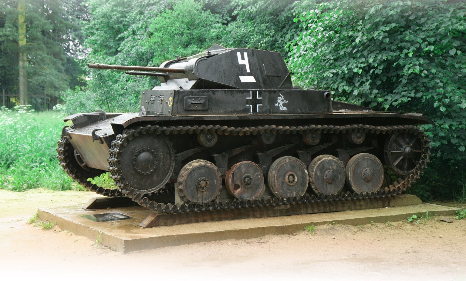 PzKpfw. II Ausf. B (Sd.Kfz. 121) – Military Historical Museum, Lenino-Snegiri (Russia). Fahrgestell number 25015. The tank was found in 1995 in Istra lake by I.V Usanevich, with some roadwheels missing, but with its tracks. Was restored from an incomplete lower hull, The entire upper hull and turret were reconstructed. The restoration was made by “Leibstandarte workshop”, Dmitry Bushmakow, in 2010.